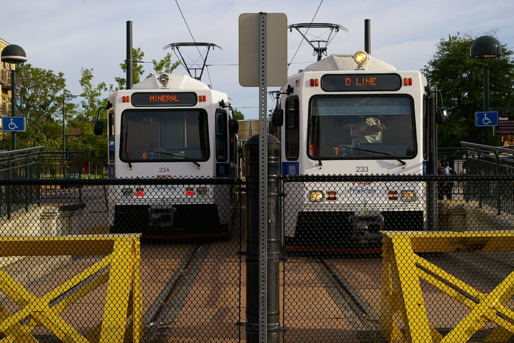 Two D Line trains at 30th-Downing station